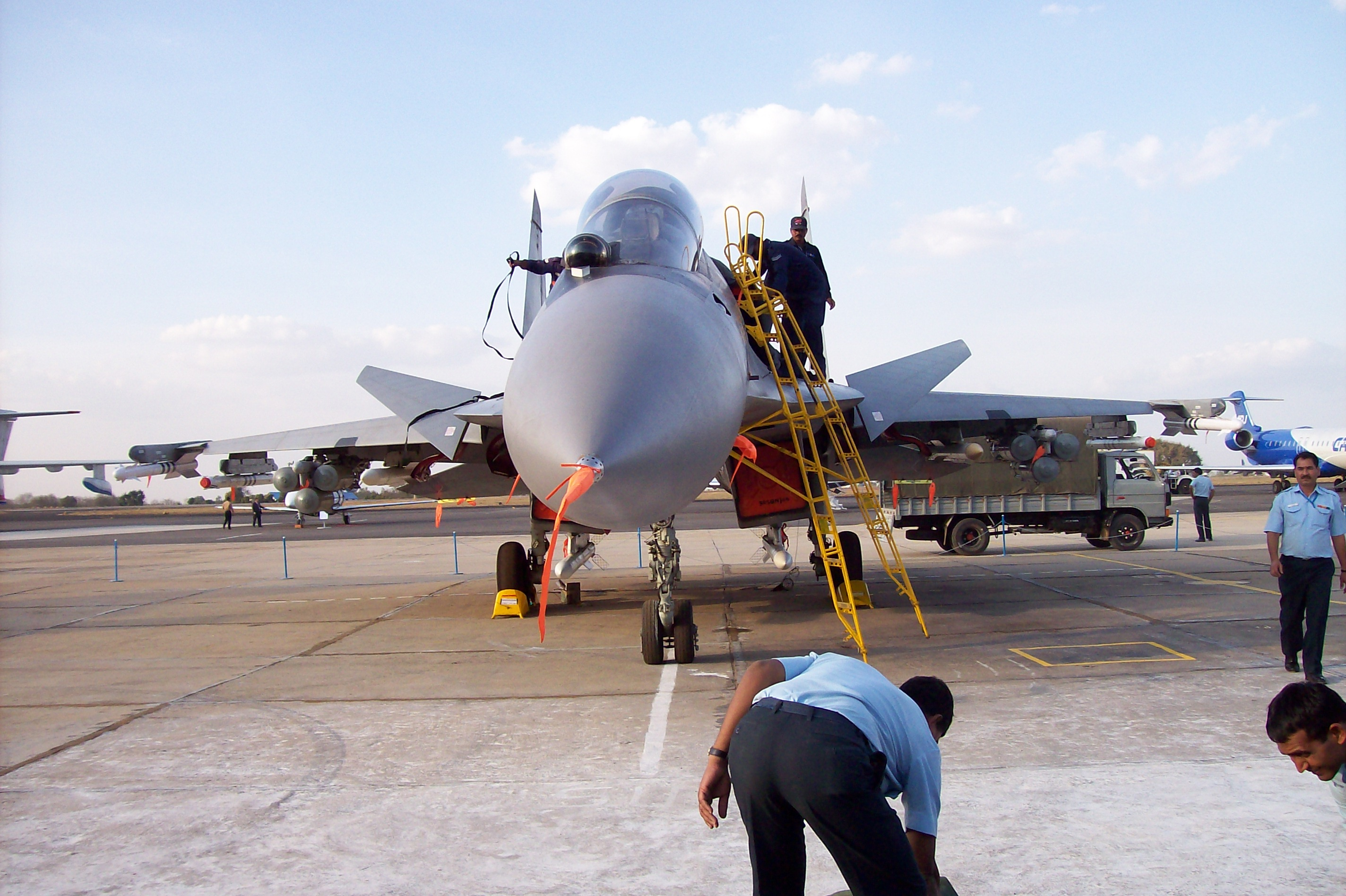 Su-30MKI at Aeroshow India 2007